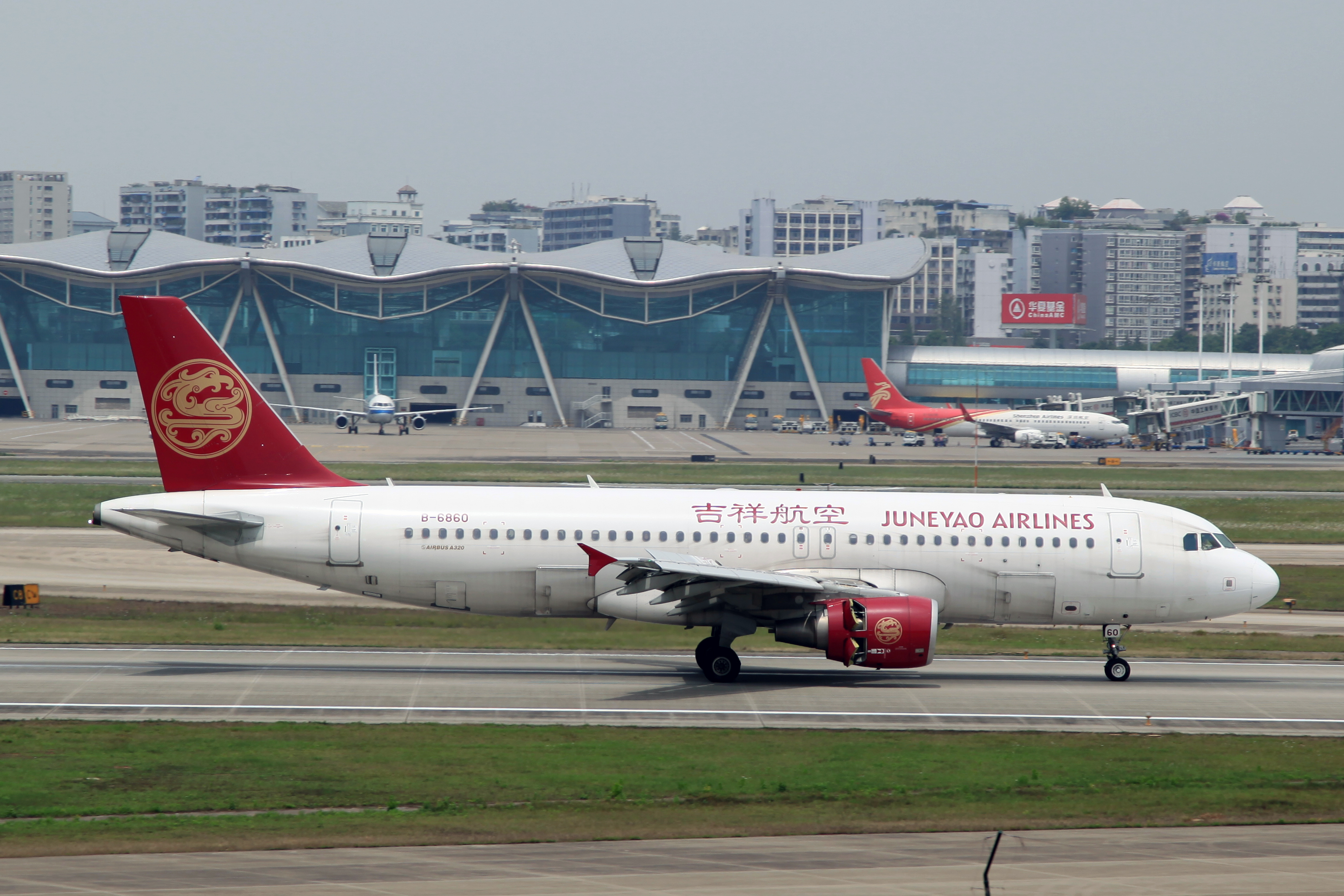 Juneyao Airlines Airbus A320-214 B-6860 @ Chongqing Jiangbei International Airport